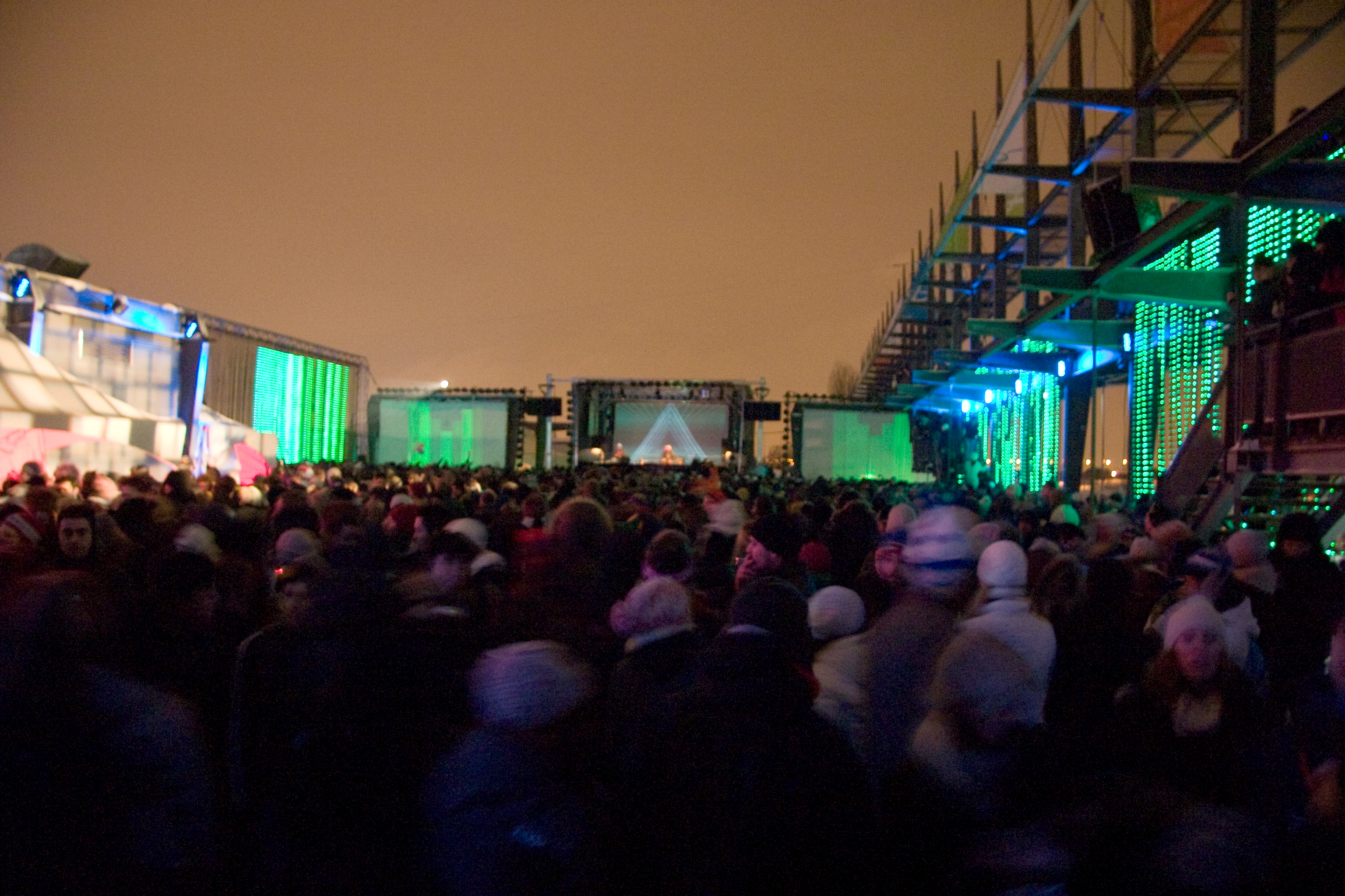 Third year of Igloofest in January 2009 in Montreal, Canada.